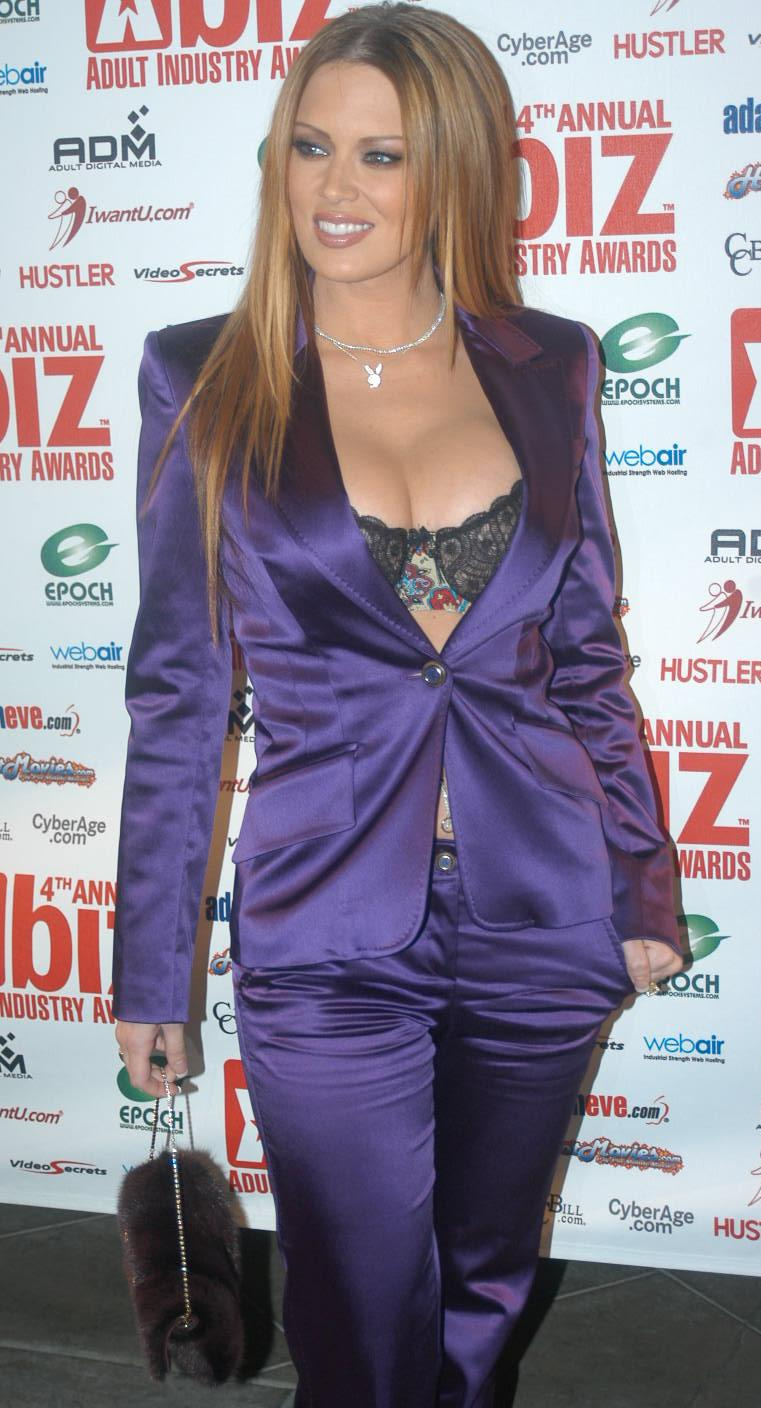 Jenna Jameson, taken at the 2005 XBiz Awards